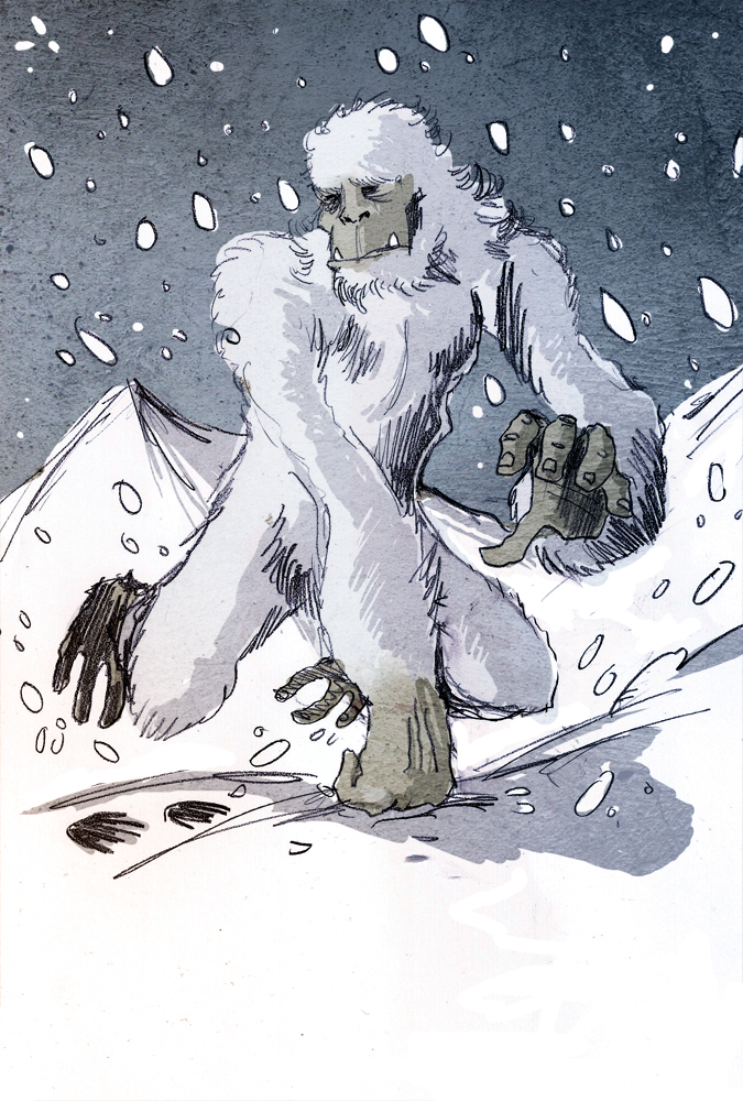 Illustration of a Yeti by Philippe Semeria.